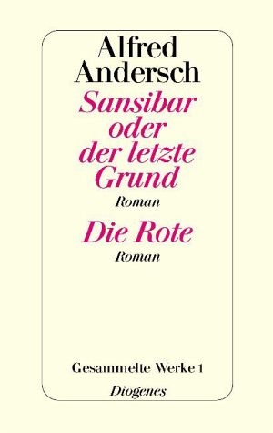 Book cover of Alfred Andersch "Sansibar oder der letzte Grund; Die Rote"